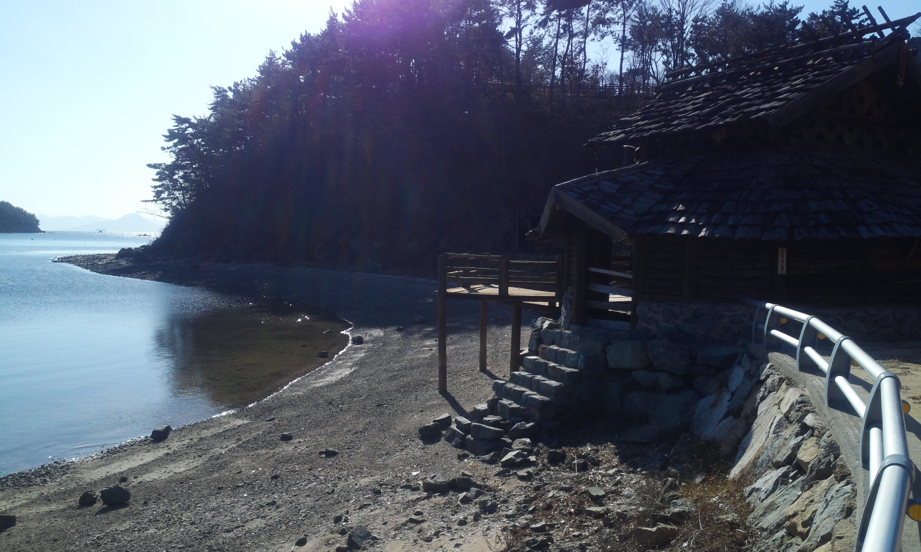 Marine drama filming location in Changwon, South Korea on January 1st, 2015